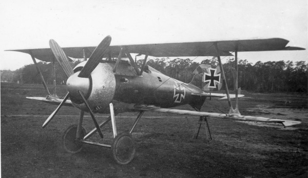 PictionID:43637328 - Catalog:16_004513 - Title:Siemens-Schuckert D.III 1917 Nowarra photo - Filename:16_004513.TIF - - - - - - - Image from the Ray Wagner Collection. Ray Wagner was Archivist at the San Diego Air and Space Museum for several years and is an author of several books on aviation --- ---Please Tag these images so that the information can be permanently stored with the digital file.---Repository: San Diego Air and Space Museum